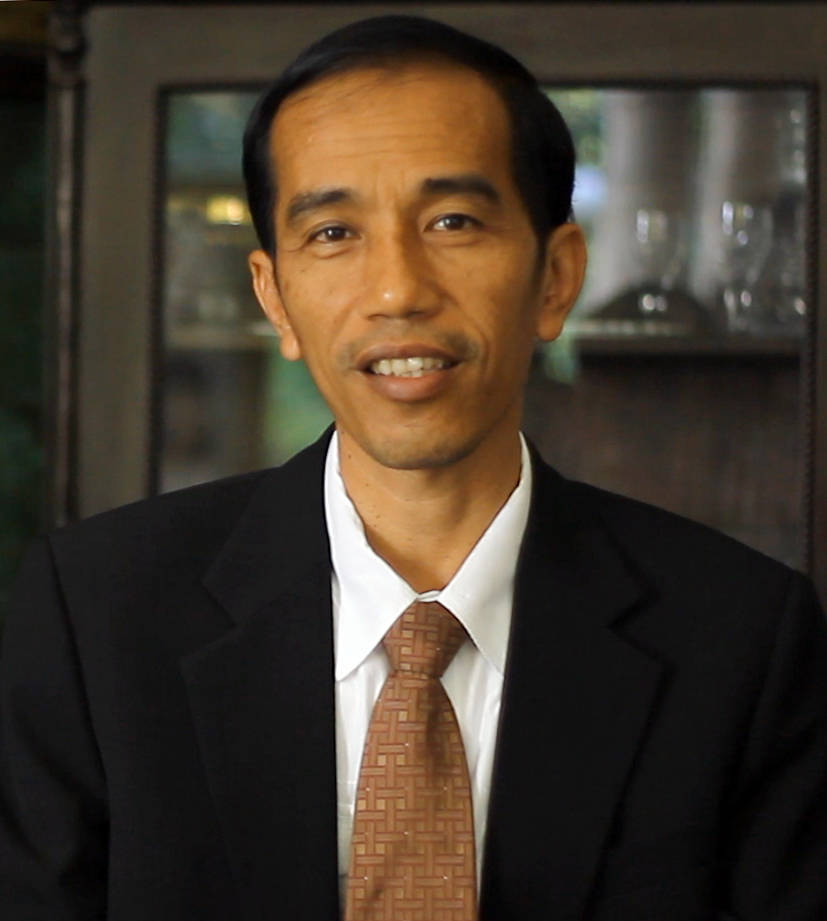 President Joko Widodo from Indonesia